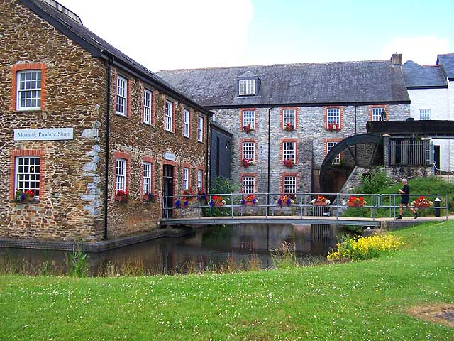 Monastic Produce Shop and Water Mill. Visitors and tourists are well catered for at Buckfast Abbey with a restaurant and a number of gift and book shops as well as the abbey itself. The monks are well known for bee keeping and honey is just one of the products that provides a good source of revenue in the Produce Shop. Unfortunately when we were there in July, the honey had sold out and we were told there wouldn't be any more until September. So if you want some get there early in the season.